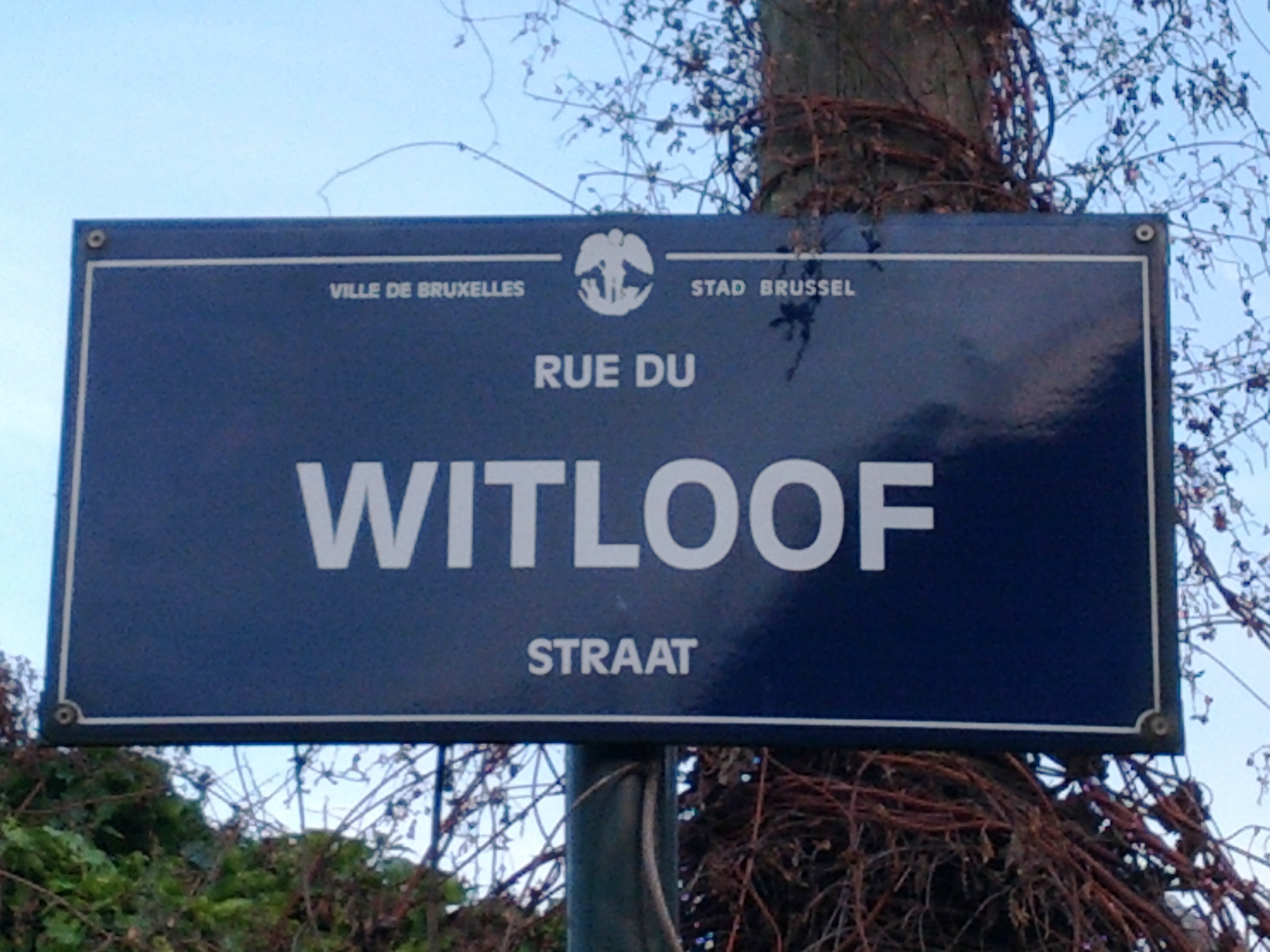 The Rue du Witloofstraat, running along the border between Haren (Brussels-Capital Region) and Diegem (Flemish Region).